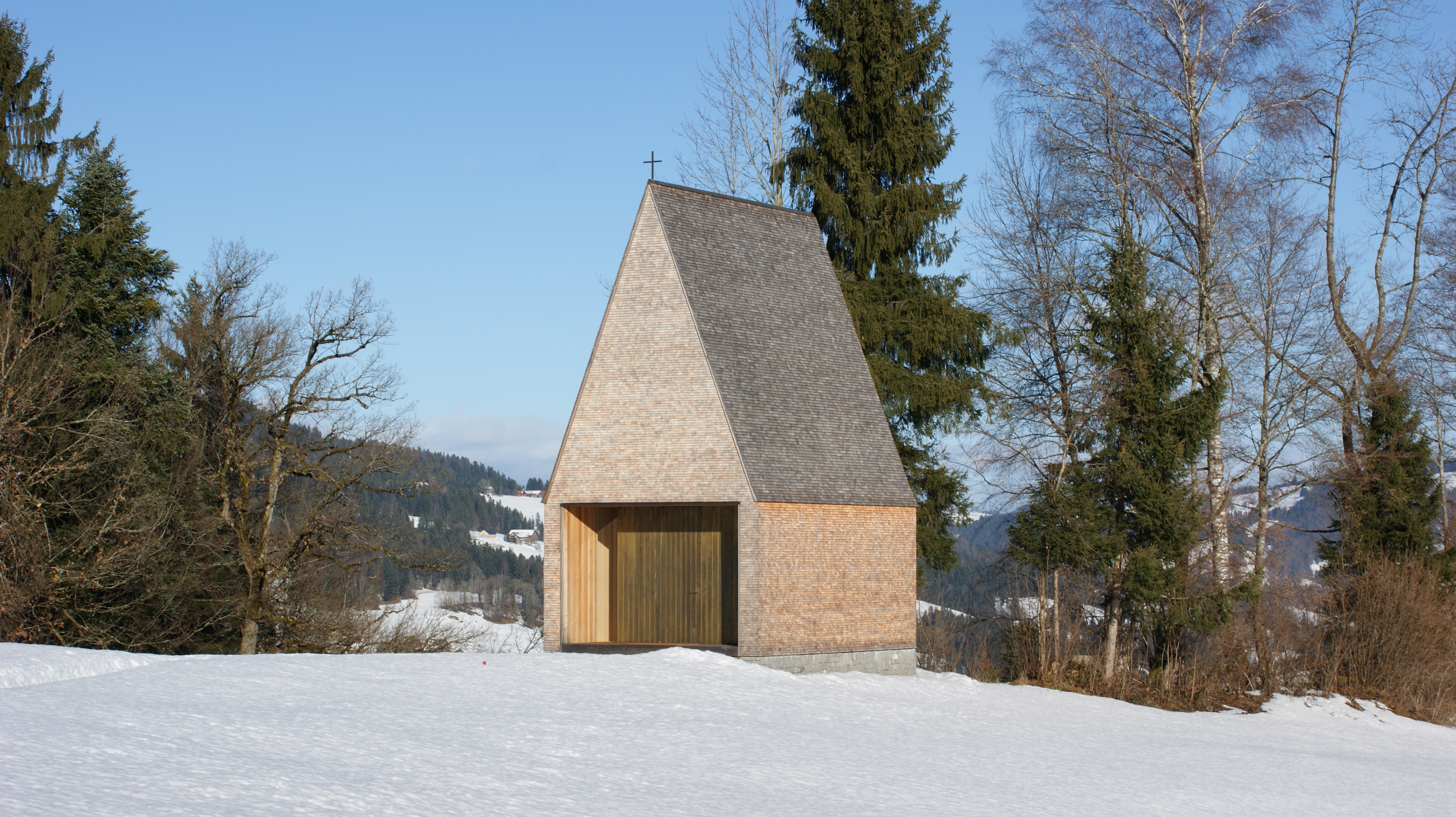 Chapel "Salgenreute" in the municipality Krumbach in Vorarlberg, Austria. Built according to the plans of the architecture office Bernardo Bader by local craftsmen and volunteers. Replaces an earlier chapel construction. View from southwest.